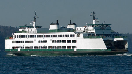 Washington State Ferry M/V Kittitas